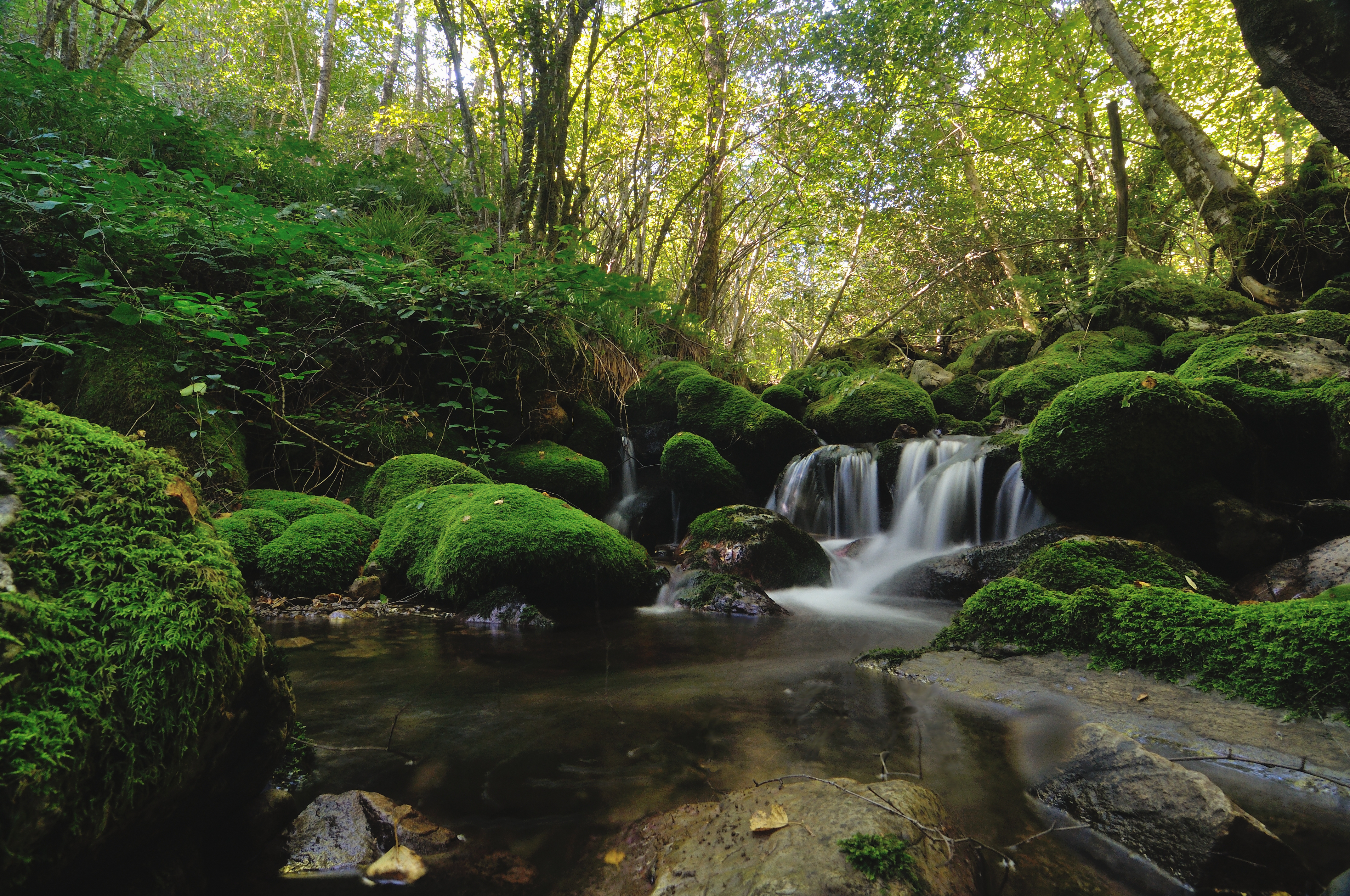 Biosphere reserve of Muniellos, in Cangas del Narcea, in Asturias, Spain.